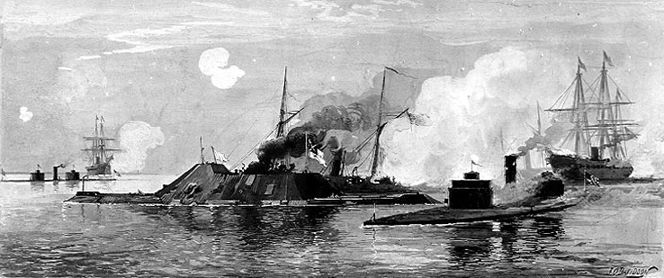 Drawing of the Battle of Mobile Bay, showing the monitors Chickasaw (right foreground), Winnebago (left background) and the Confederate ironclad Tennessee (left center)